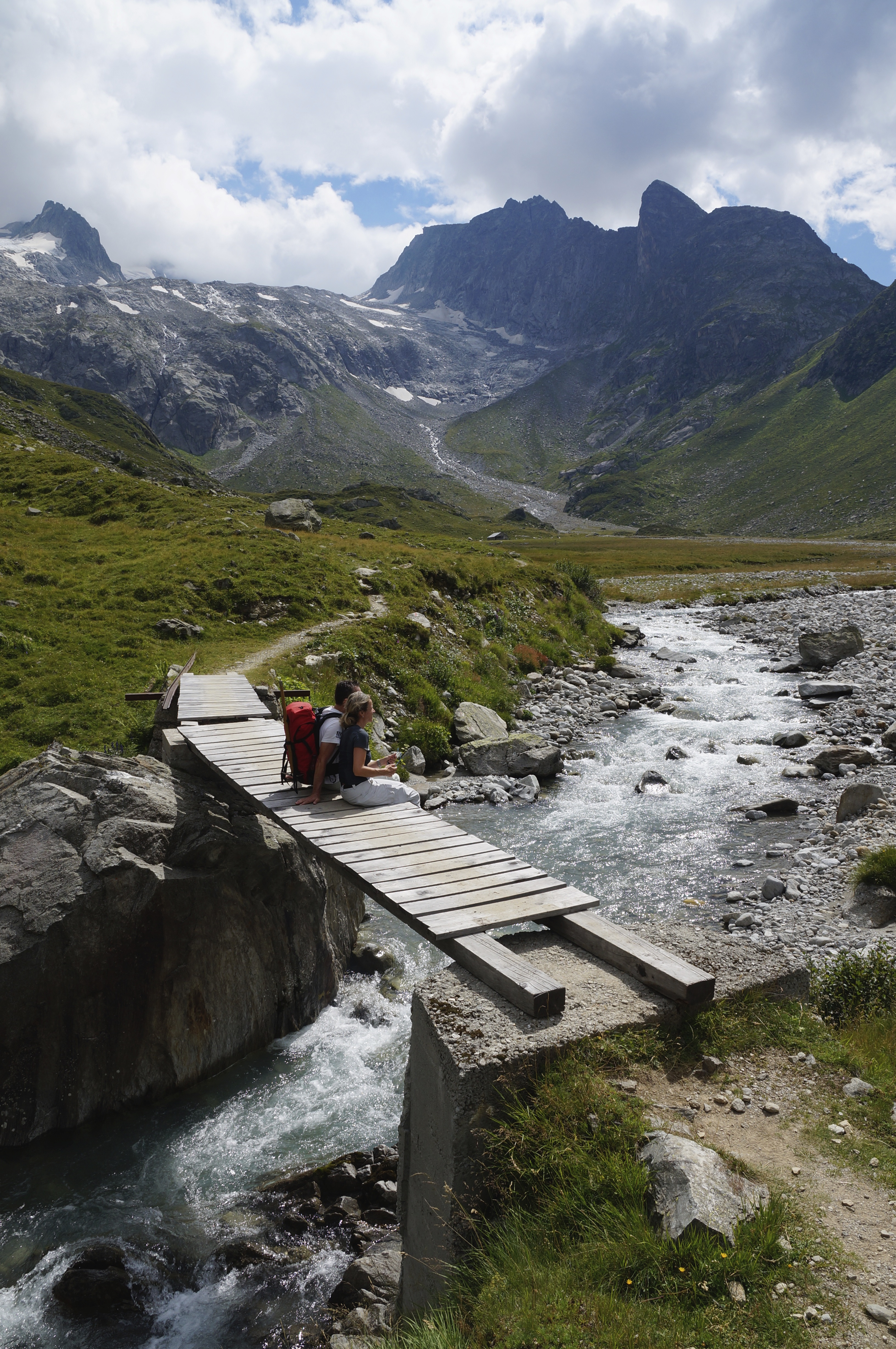 Alp Sura in Val Plattas, Medel, Swiss Alps – Piz la Buora (2678m) and Davos la Buora (2871m) in the background